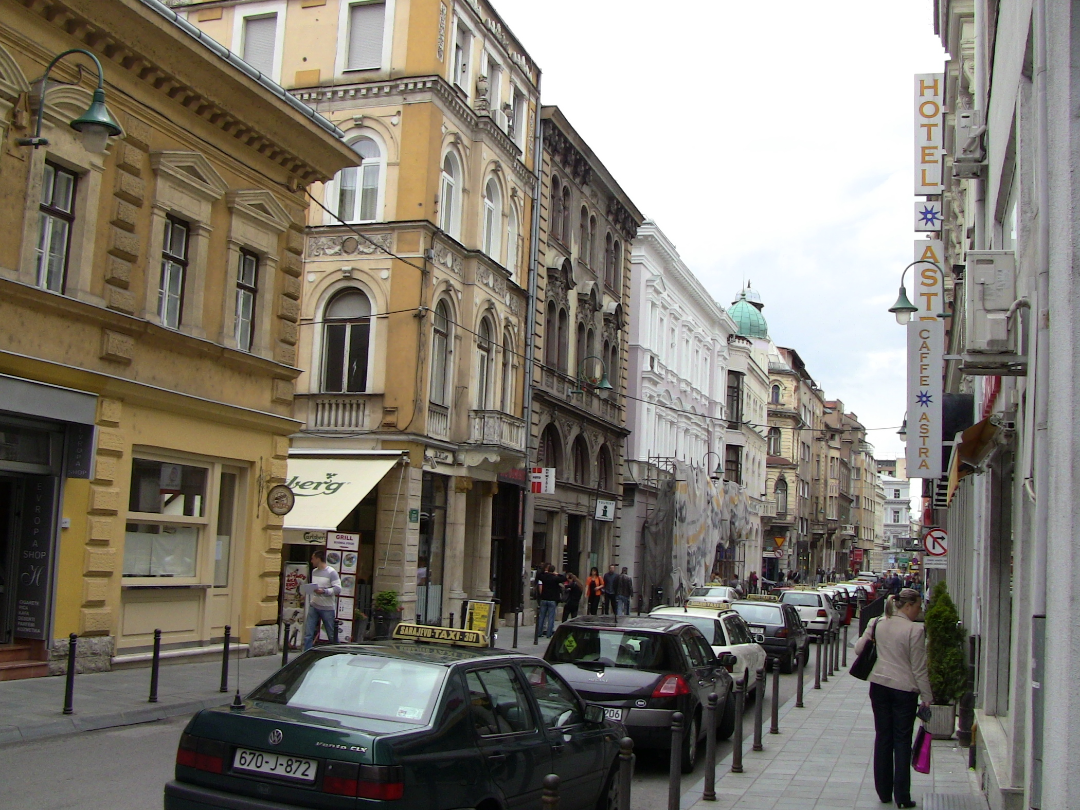 Sarajevo street (Cnr Zelenih Beretki & Sime Milutinovića Sarajlije)